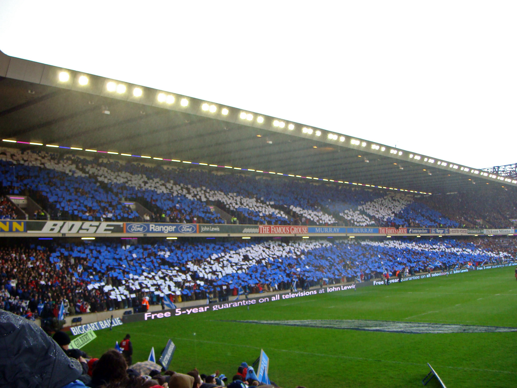 Human St Andrews flag, Human St Andrews flag at Murrayfield, Scotland versus England Six Nations 2008 Location: Edinburgh